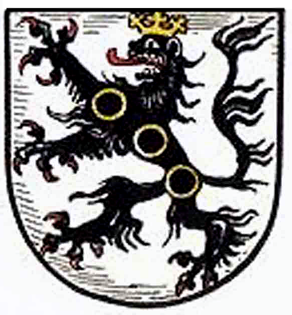 coats of arms of the lordship of Rheda